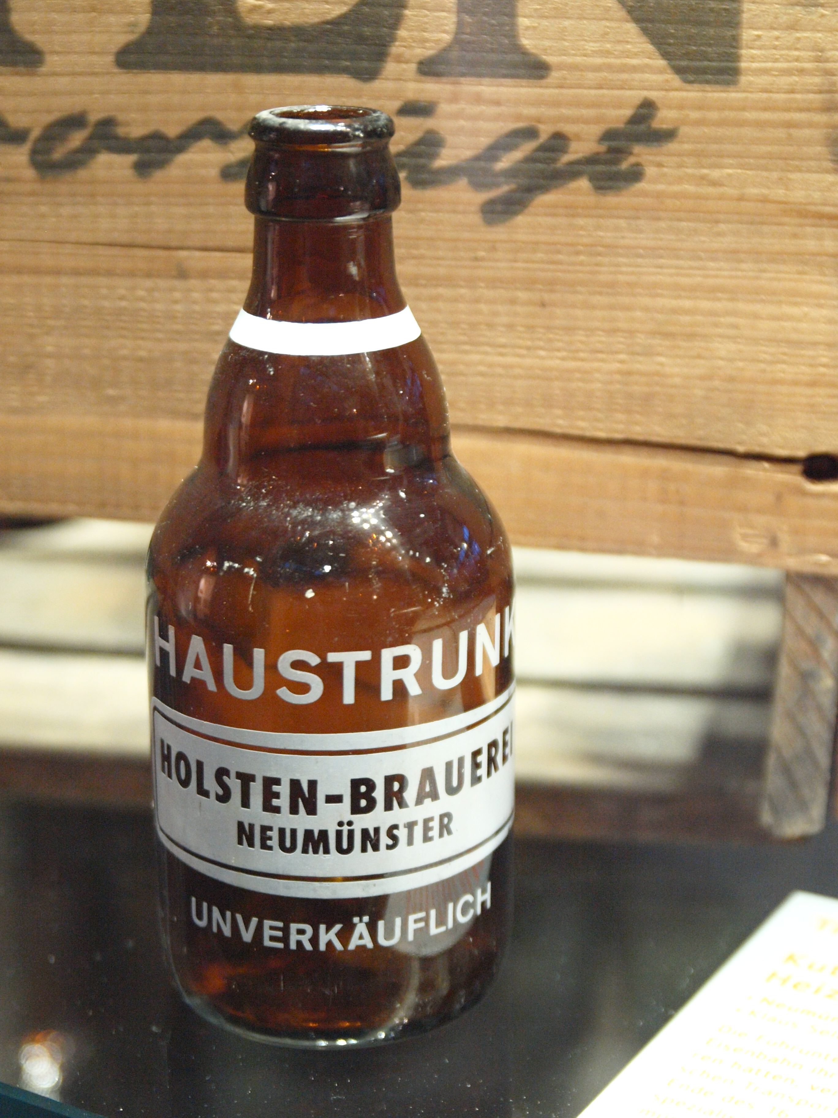 A bottle "Haustrunk", a beer free of costs for the workers at breweries as part of their salary. Holsten Brewery Neumünster, Germany. 330 ml content, in use after 1953 and before 1986. Photographed at Tuch und Technik Textilmuseum Neumünster, Schleswig-Holstein, Germany. Height: 174 mm (6.9 in). Diameter: 70.5 mm (2.8 in).